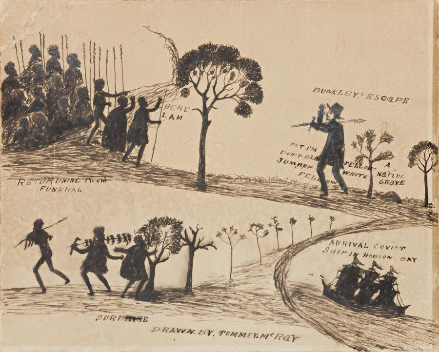 Buckley's Escape, pen and ink on paper, 24.0 x 30.0 cm, by Tommy McRae